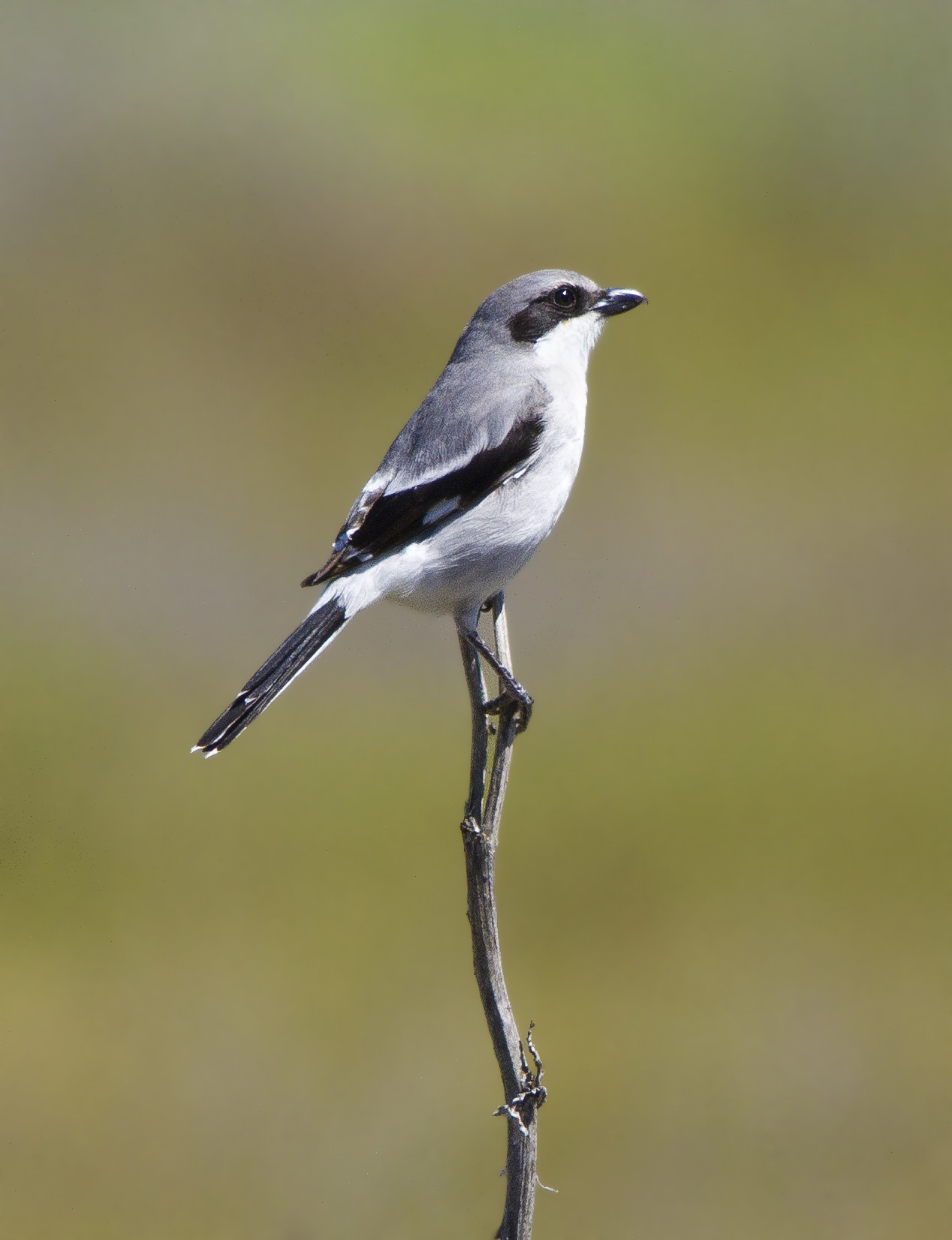 Loggerhead Shrike (Lanius ludovicianus), California